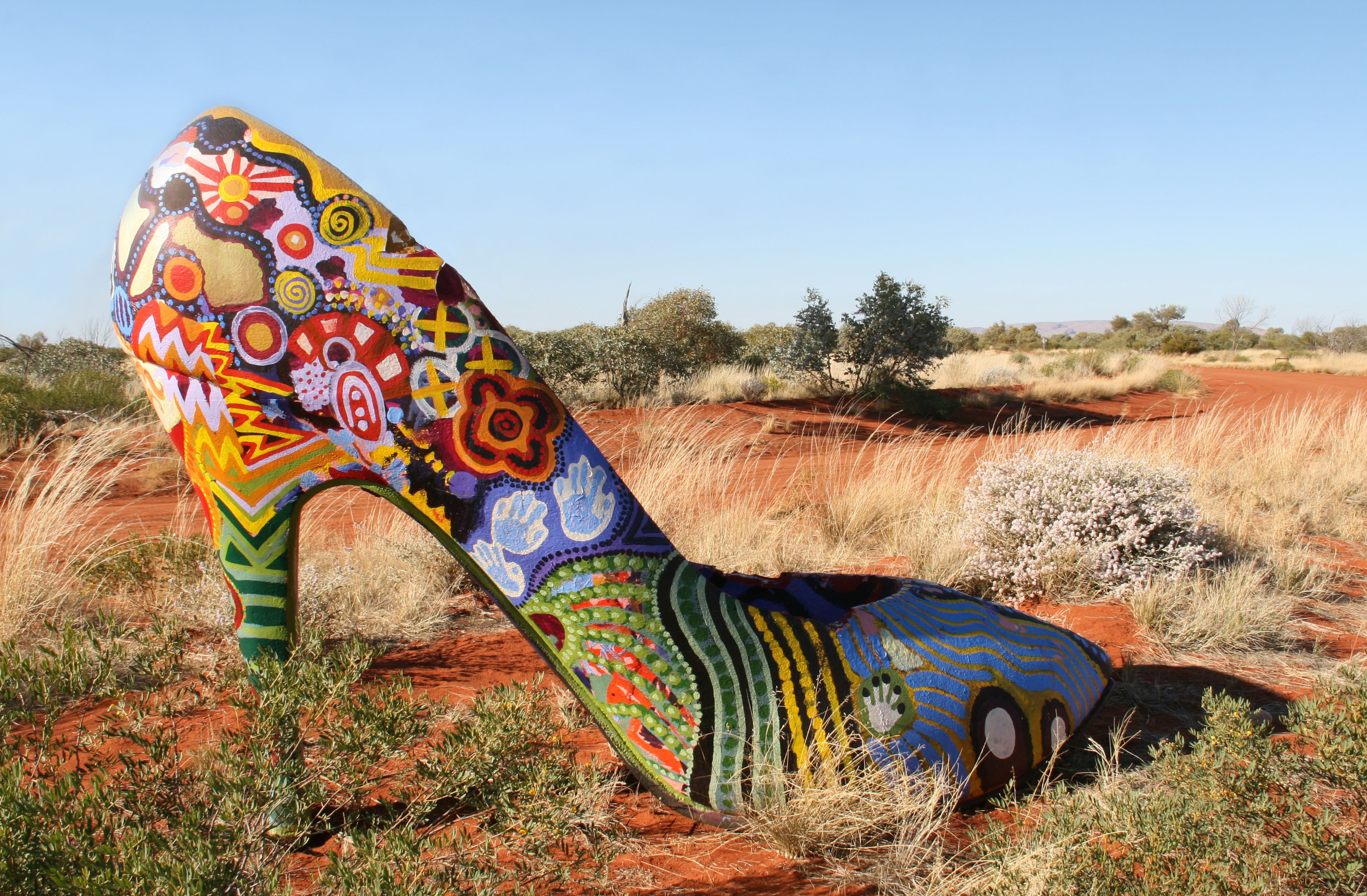 This giant stiletto brightly painted with indigenous motifs marks the turnoff to Tjukurla community on the Sandy Blight Junction Road Northern Territory, Australia